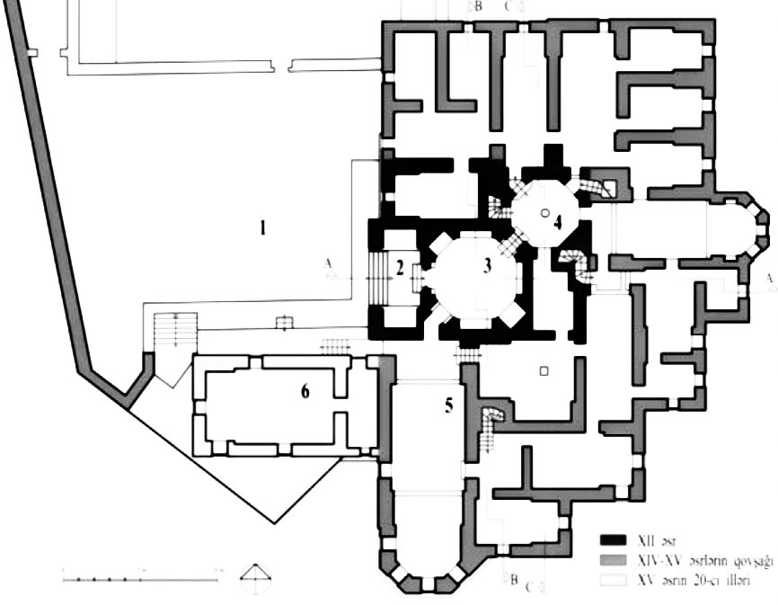 Shirvansah palace construction chronology plan